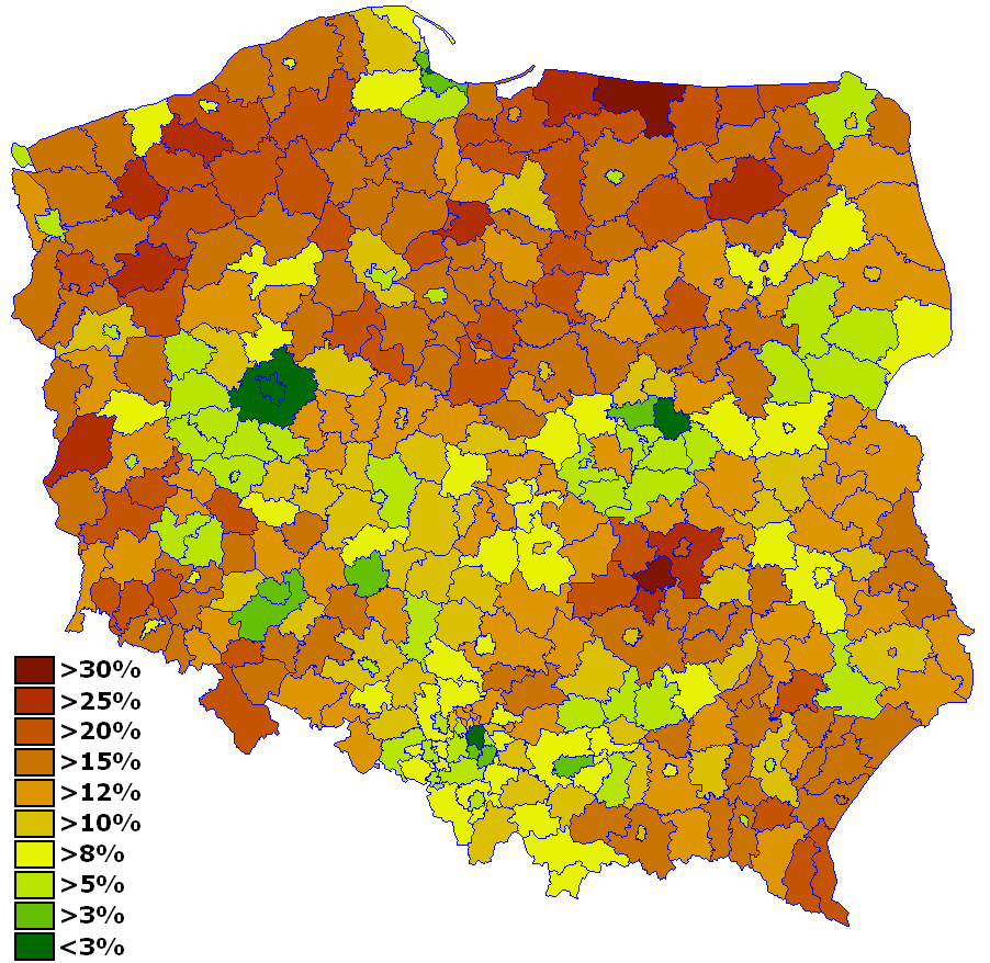 Unemployement in Poland, end of August, 2009 - by counties; Source of data: [1]